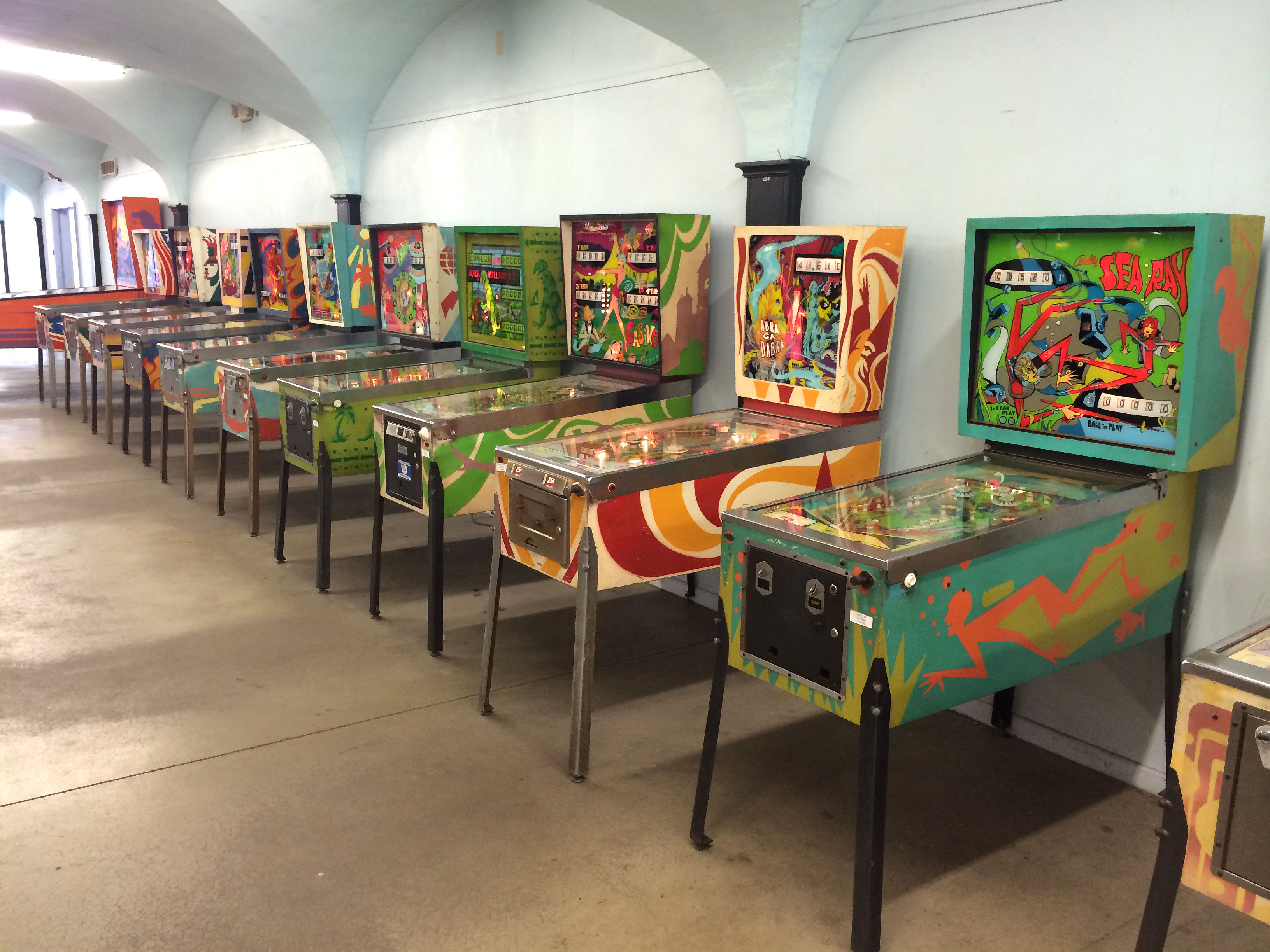 Pinball machines at Cedar Point.